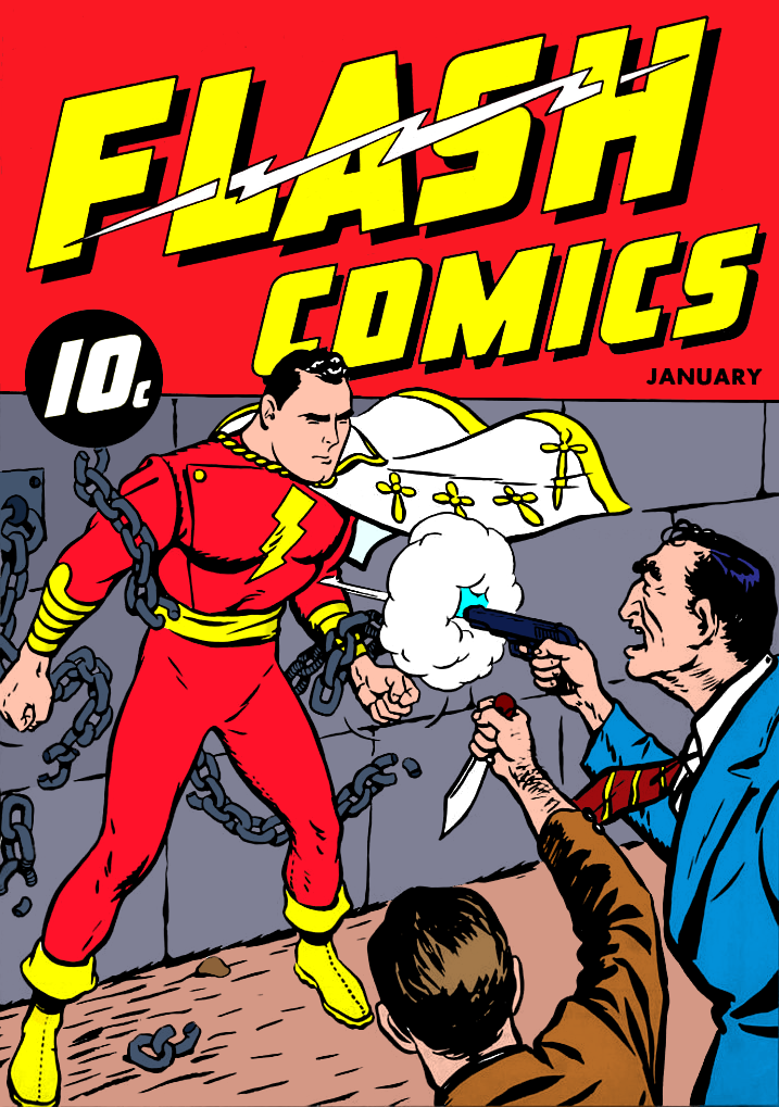 Colorized ashcan copy of Flash Comics, featuring Captain Thunder (later published as Captain Marvel in Whiz Comics number 2. An ashcan copy is a publication produced solely for legal purposes (such as copyright), and not normally intended for distribution. Some of the artwork was later used in Whiz Comics number 3 (March 1940, page 14). Color scheme based on the cover of Whiz Comics number 2, representing how the title may have looked if distributed in color. The original image is assumed to be in the public domain due to lapsed copyright.